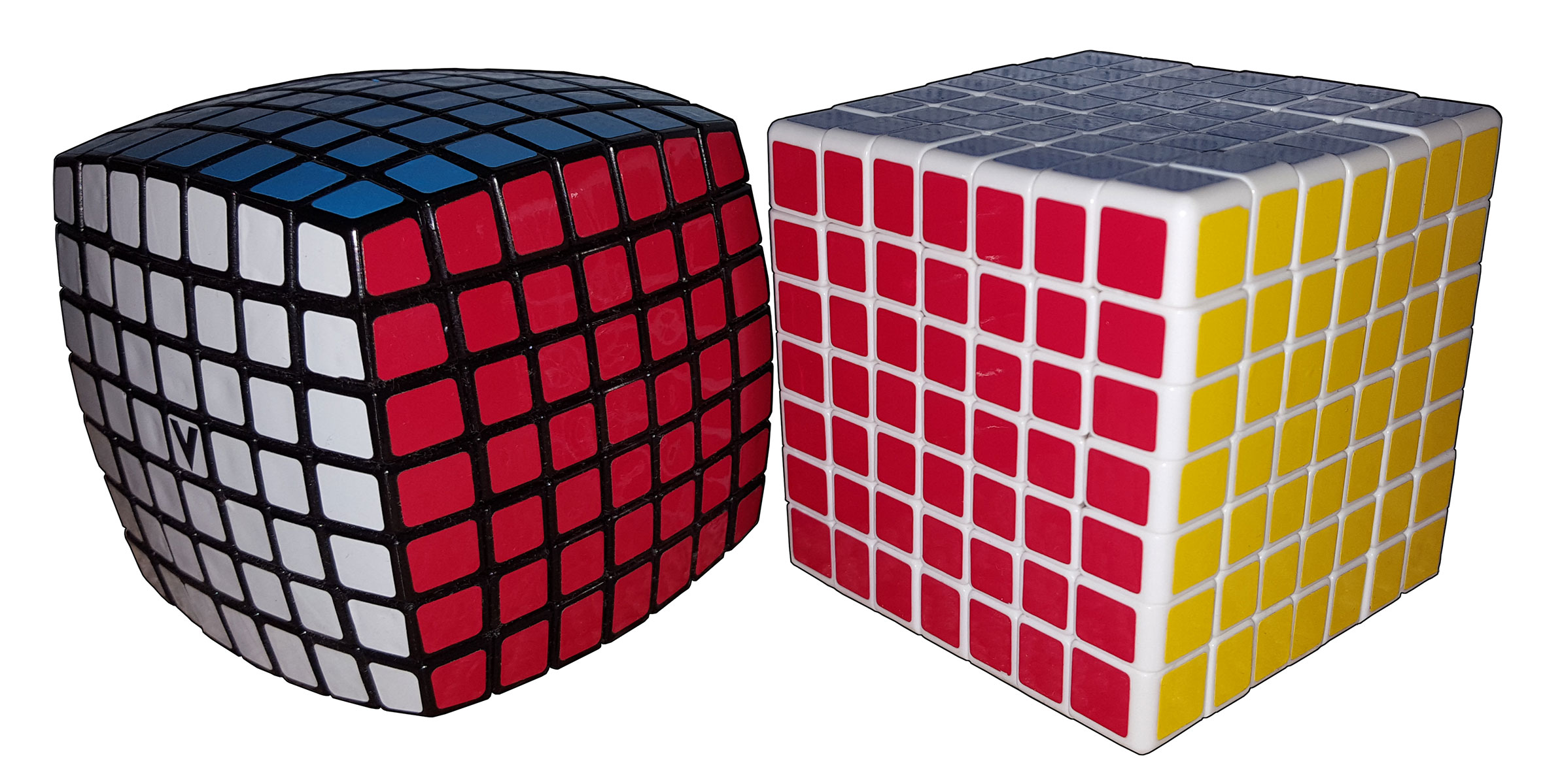 V-Cube and Shengshou 7-layer cubes